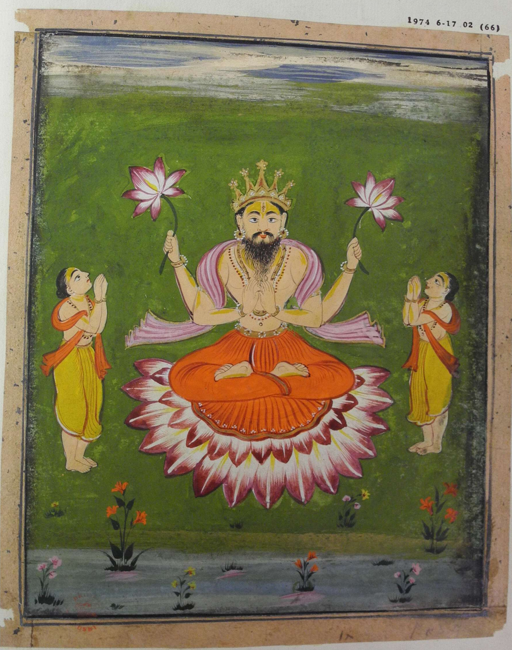 A Persian style Deccani painting of Buddha as Vishnu avatar. "Title (series): Persian Portraits, Etc; Viṣhṇu as Buddha making gesture of dharmacakrapravartana flanked by two disciples; single-page painting mounted on an album folio. Crowned and bejeweled Buddha sits crosslegged on an open flower with two hands joined in prayer and the other two holding pink flowers aloft. Identically dressed figures stand on either side, praying to Buddha. Flat green ground with blue and white sky along top and hazy blue along bottom with flowering plants. Outlined in black and framed by a plain beige border; page cut before mounted into album. Album contains 67 Deccani paintings, mostly depictions of named individuals, along with some Hindu gods and goddesses. Album bound in blue-green leather and stamped with Sloane's gilded armorial on front and back cover." Album leaf (recto); painting. Viṣṇu as Buddha making gesture of dharmacakrapravartana flanked by two disciples.